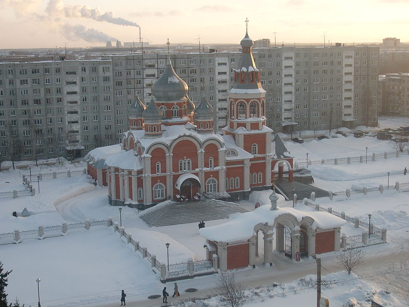 Saint Pantaleon Church in Kirov, Russia